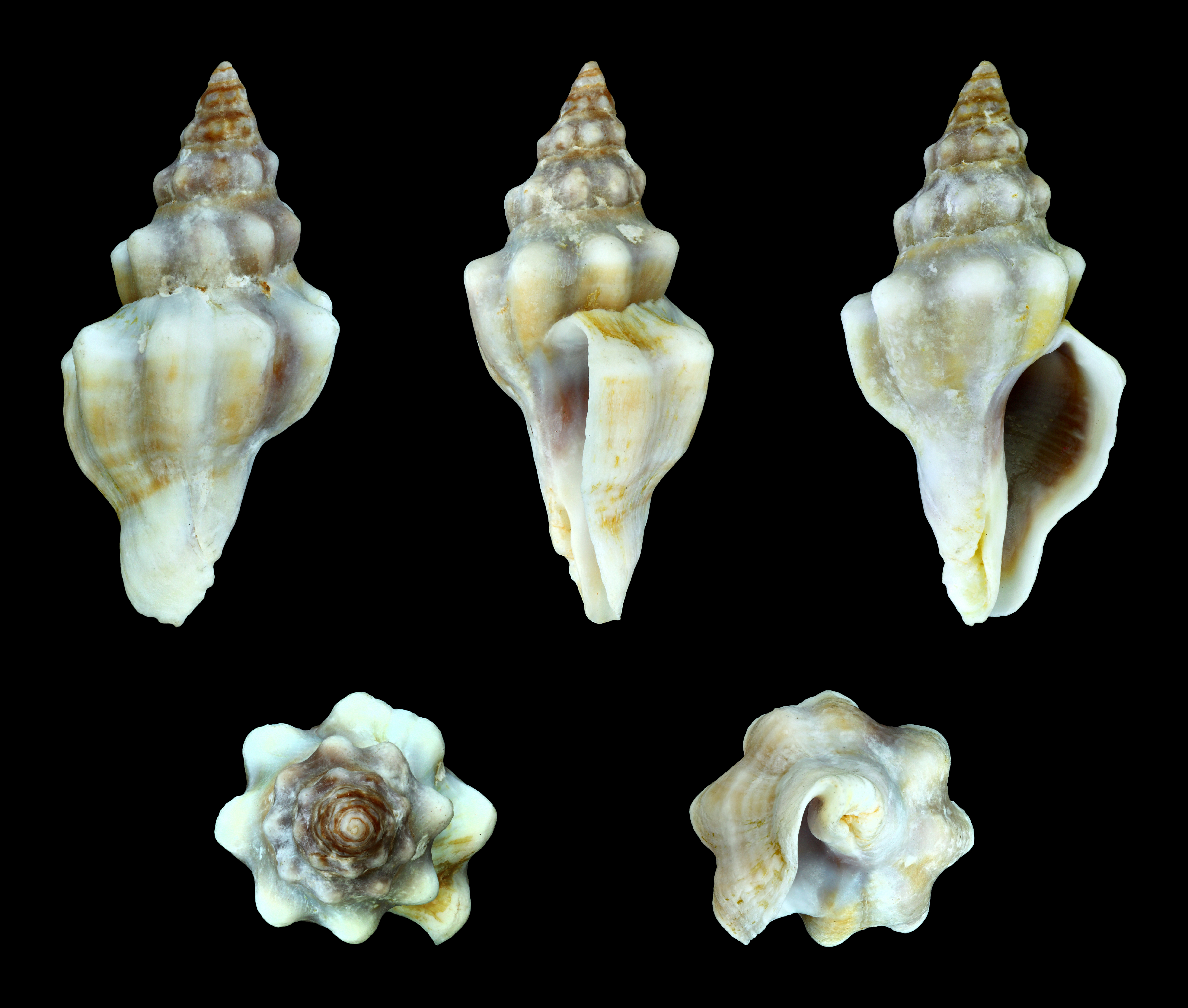 Length 4.3 cm; Originating from Santa Eulària, Ibiza, Spain; Shell of own collection, therefore not geocoded. Dorsal, lateral (right side), ventral, back, and front view.